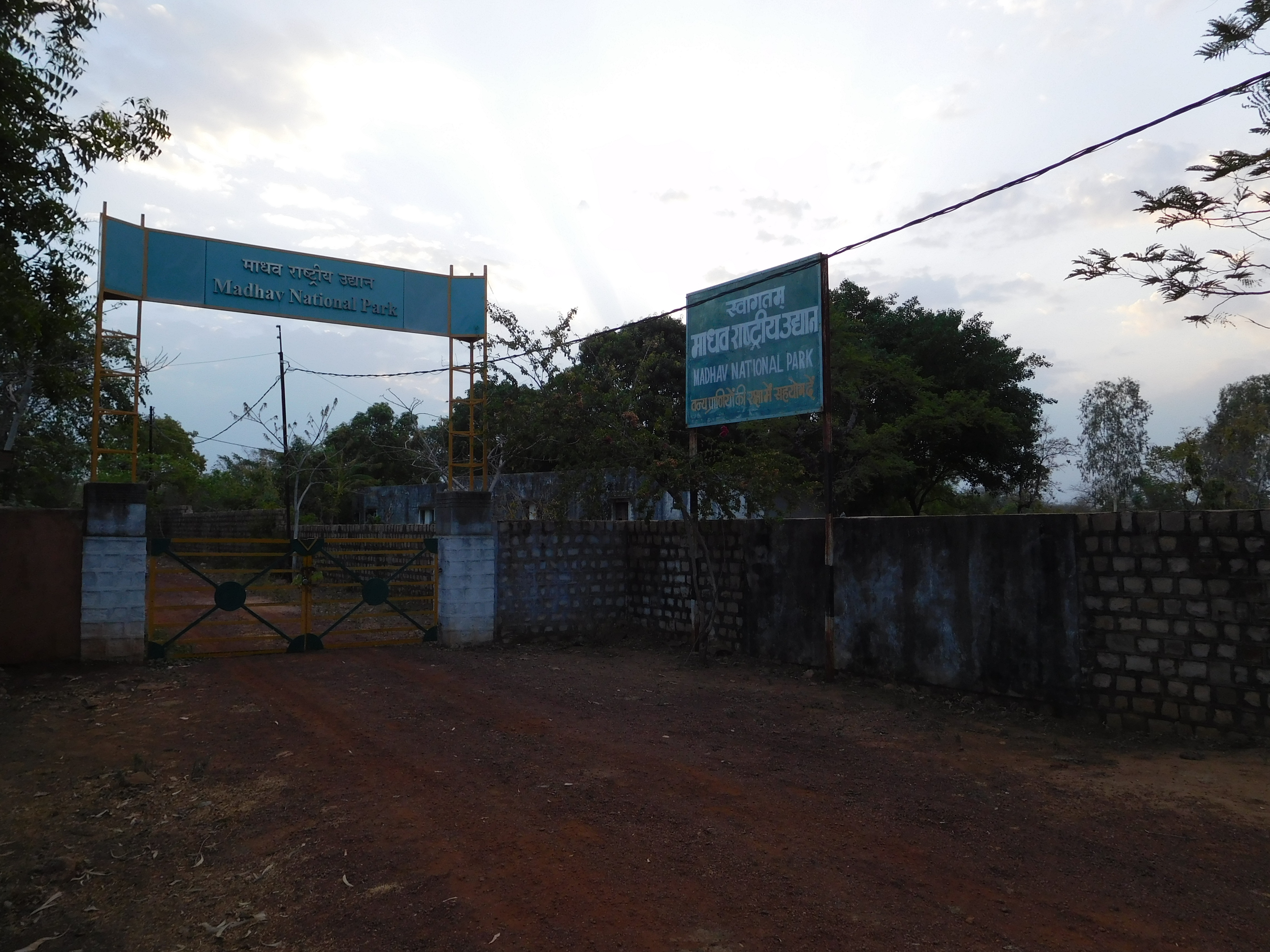 Madhav National Park (Gate View) Shivpuri,Madhya Pradesh,India.